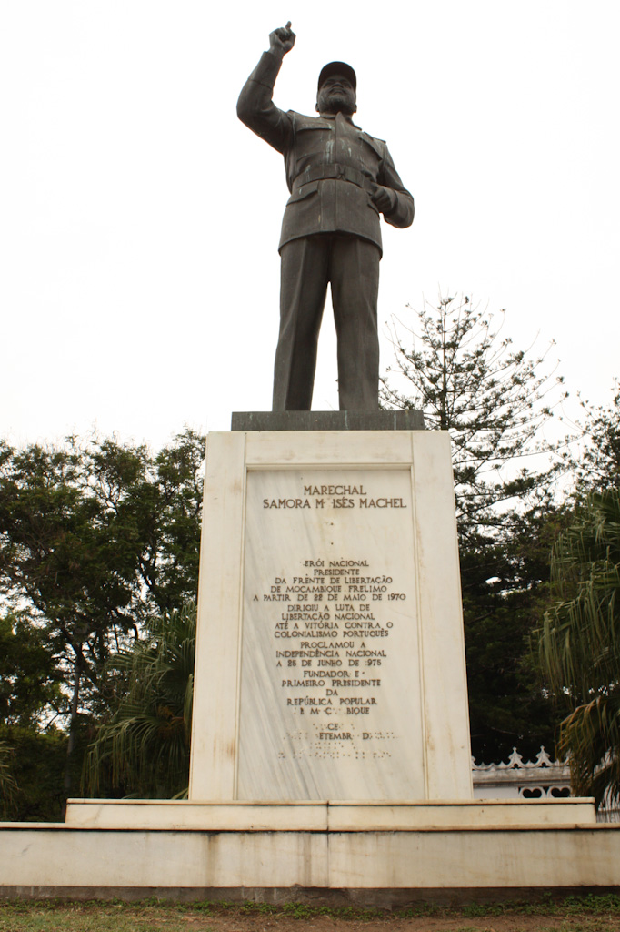 Statue of Samora Moises Machel in front of Jardim Tunduru, Maputo, Mozambique